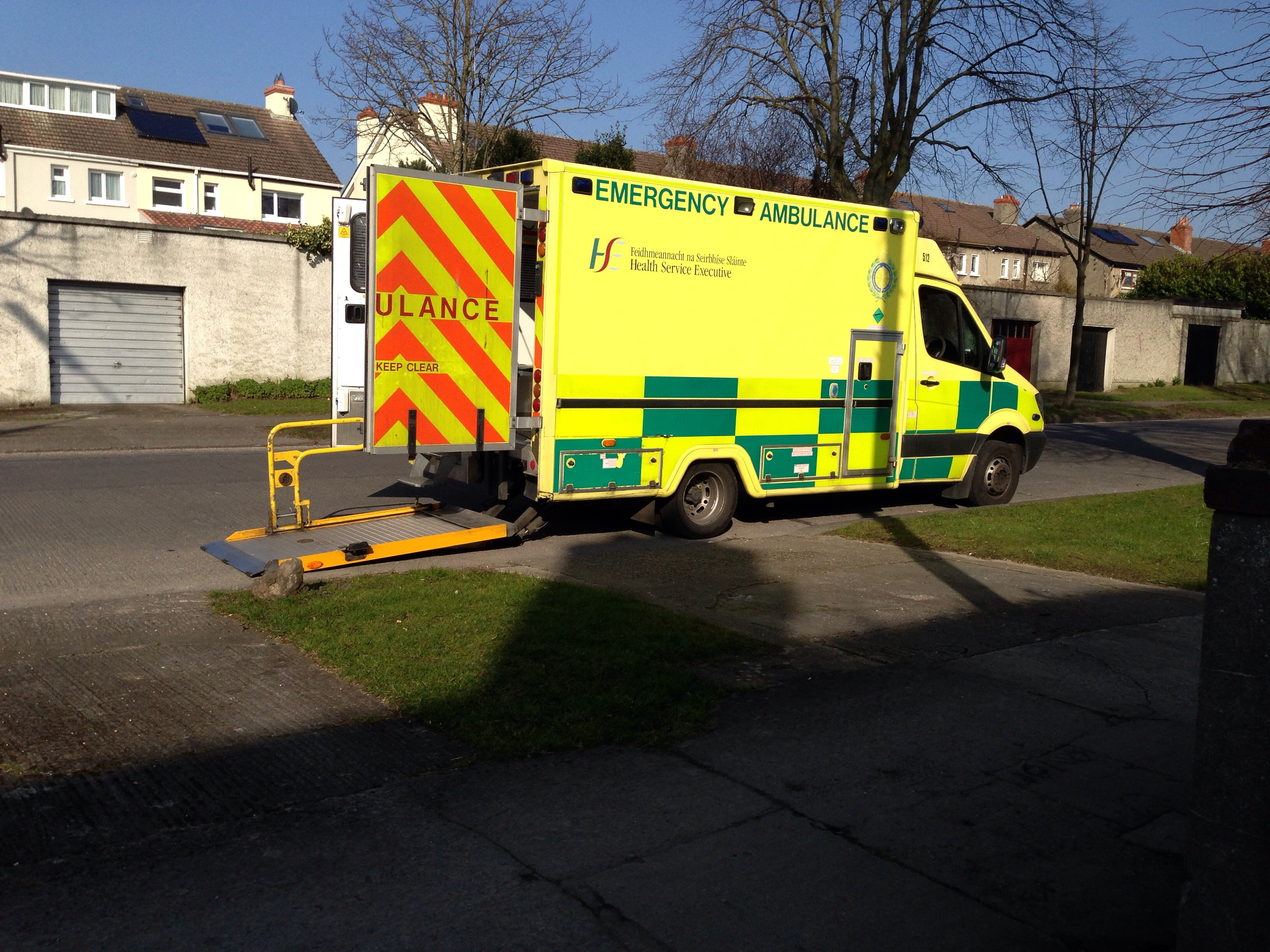 HSE NAS Emergency Ambulance at a scene in Dublin